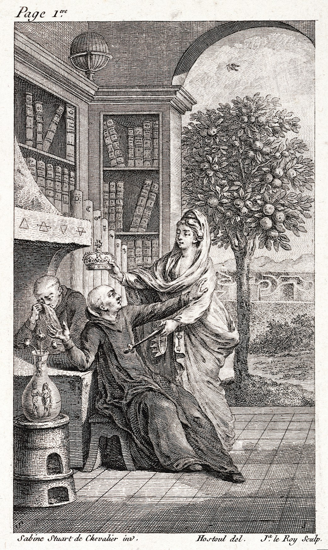 A woman bestows a crown on a monk; next to him is a furnace upon which rests a jar containing homunculi of a man and woman holding hands, and a child emanating from between them and rising upwards (alchemical symbol of conception). Etching by J. Le Roy after Hostoul after Sabine Stuart de Chevalier. Iconographic Collections Keywords: Sabine Stuart de Chevalier; Hostoul; Jacques Le Roy